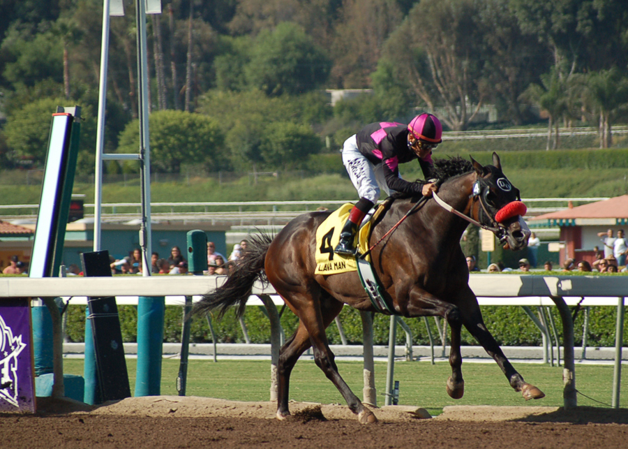 Lava Man (with jockey Corey Nakatani) after crossing the finish line to take 1st place in the 25th running of the Goodwood Breeder's Cup Handicap, 2006. Date: 10/07/06 (6th thoroughbred race of the day). Location: Oak Tree at Santa Anita. Arcadia, CA